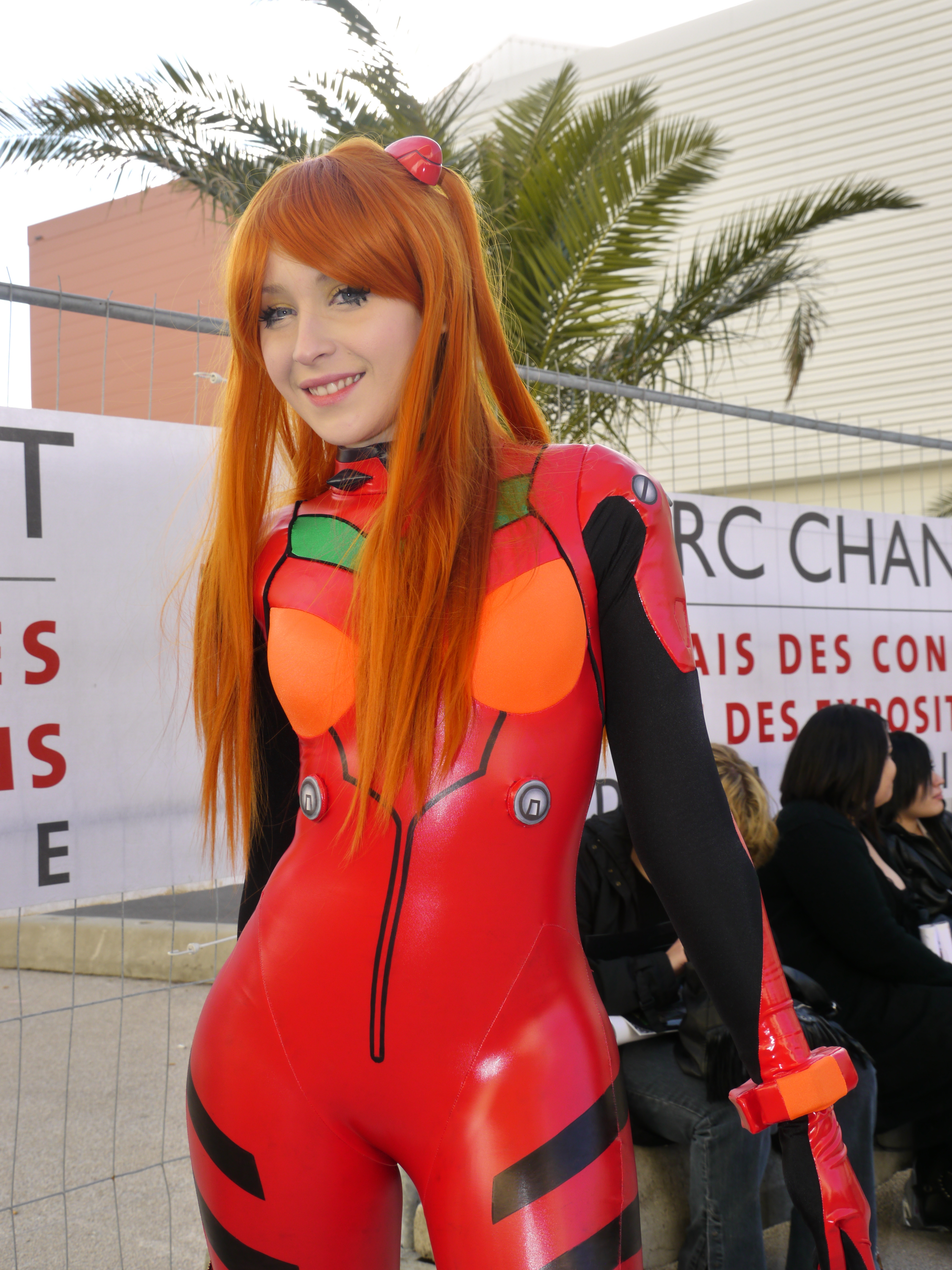 Nikita cosplays as plugsuit Asuka Langley Soryu from Neon Genesis Evangelion at Japan Expo Sud 2011. 中文（台灣）: Japan Expo Sud 2011，Nikita cosplay戰鬥服《新世紀福音戰士》惣流·明日香·蘭格雷。